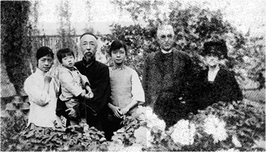 Ling Fupeng, his daughters and others